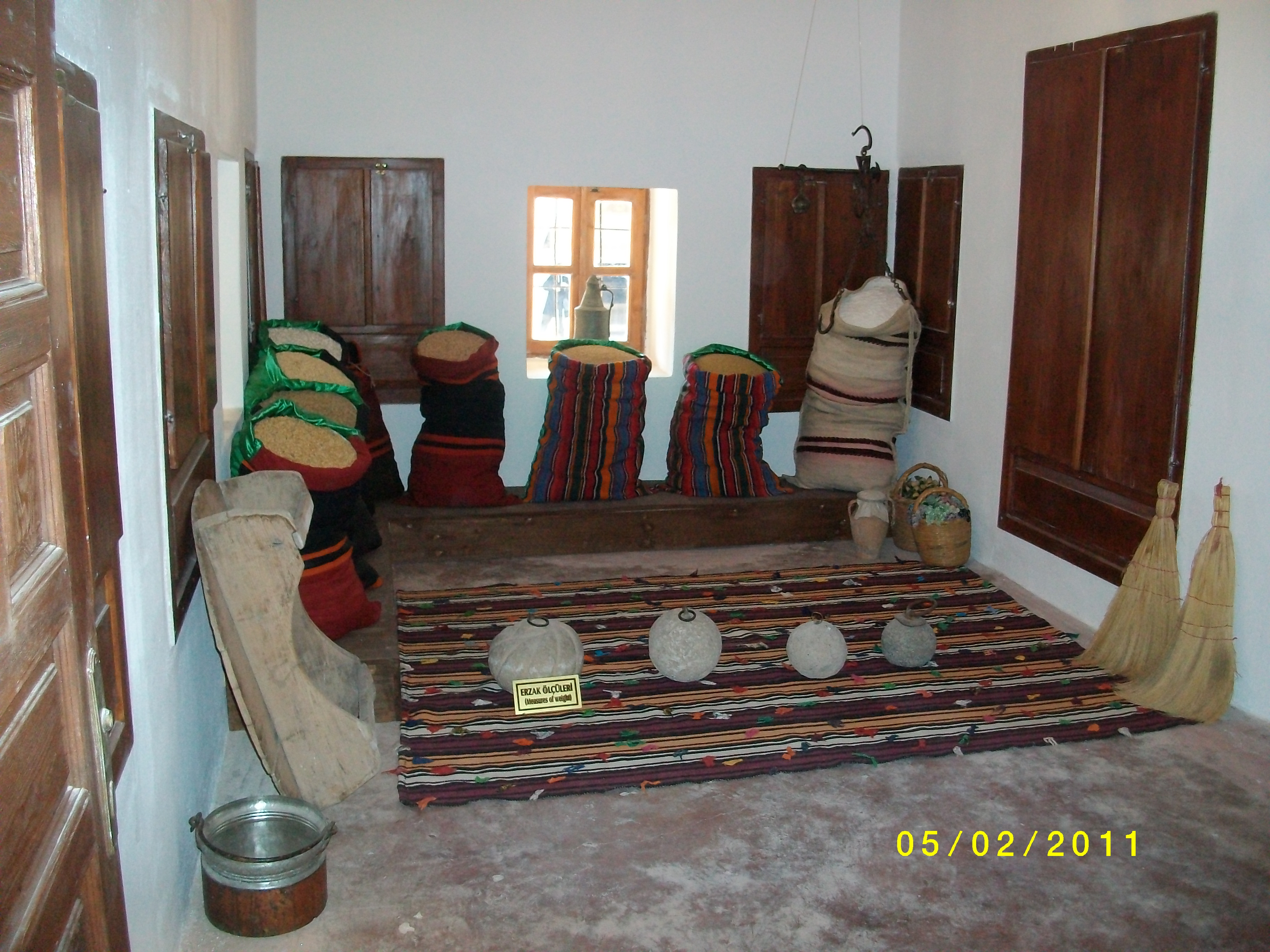 museum